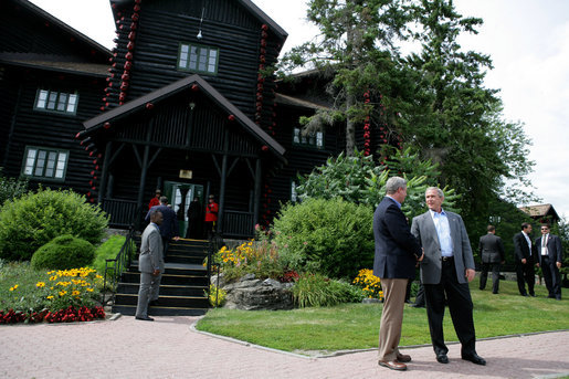 President George W. Bush stands with Canada's Prime Minister Stephen Harper after arriving Monday, Aug. 20, 2007, for their bilateral meeting at the Fairmont Le Chateau Montebello in Montebello, Canada.